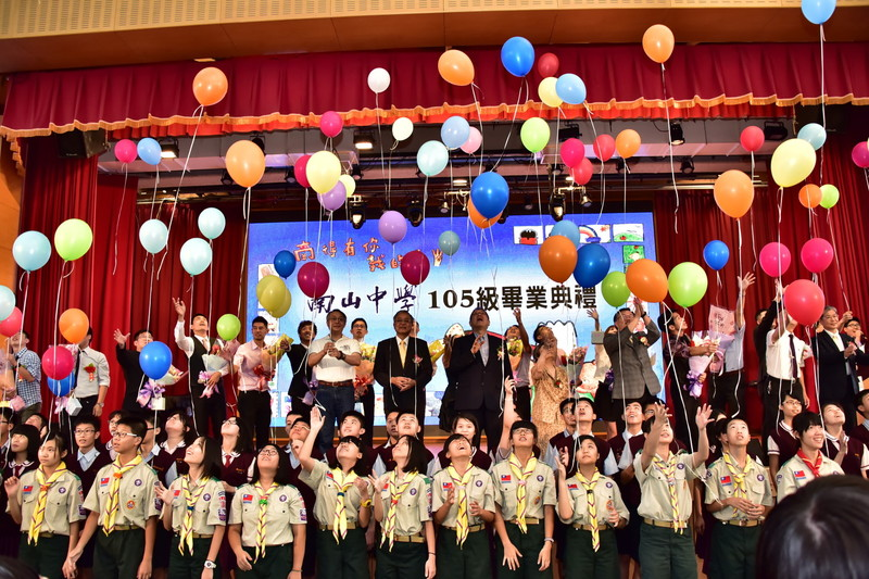 Including scout releasing balloon to the air (one of the tradition named 薪火相傳)